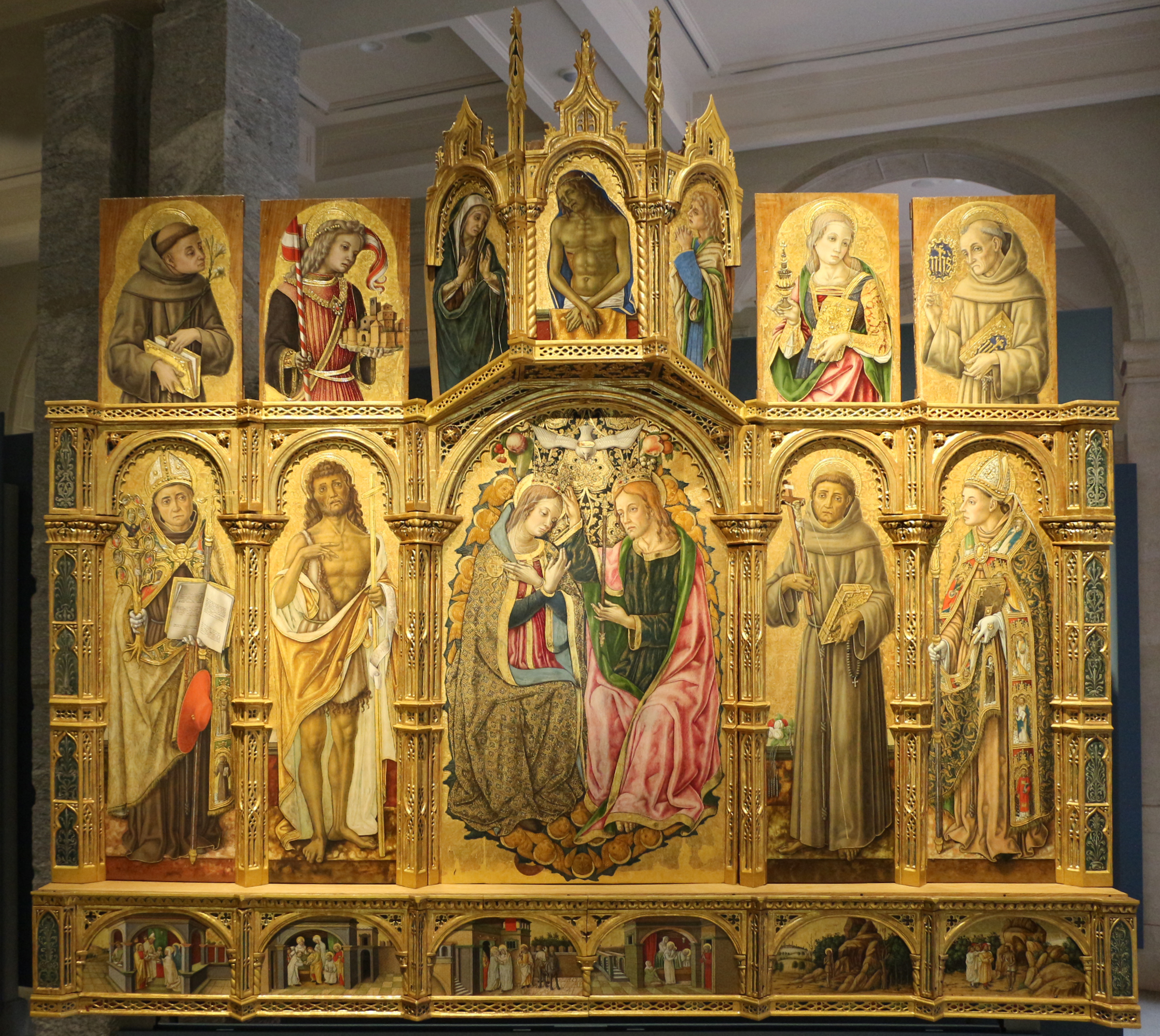 Restituzioni 2016